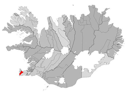 Based on Municipalities of Iceland.png.